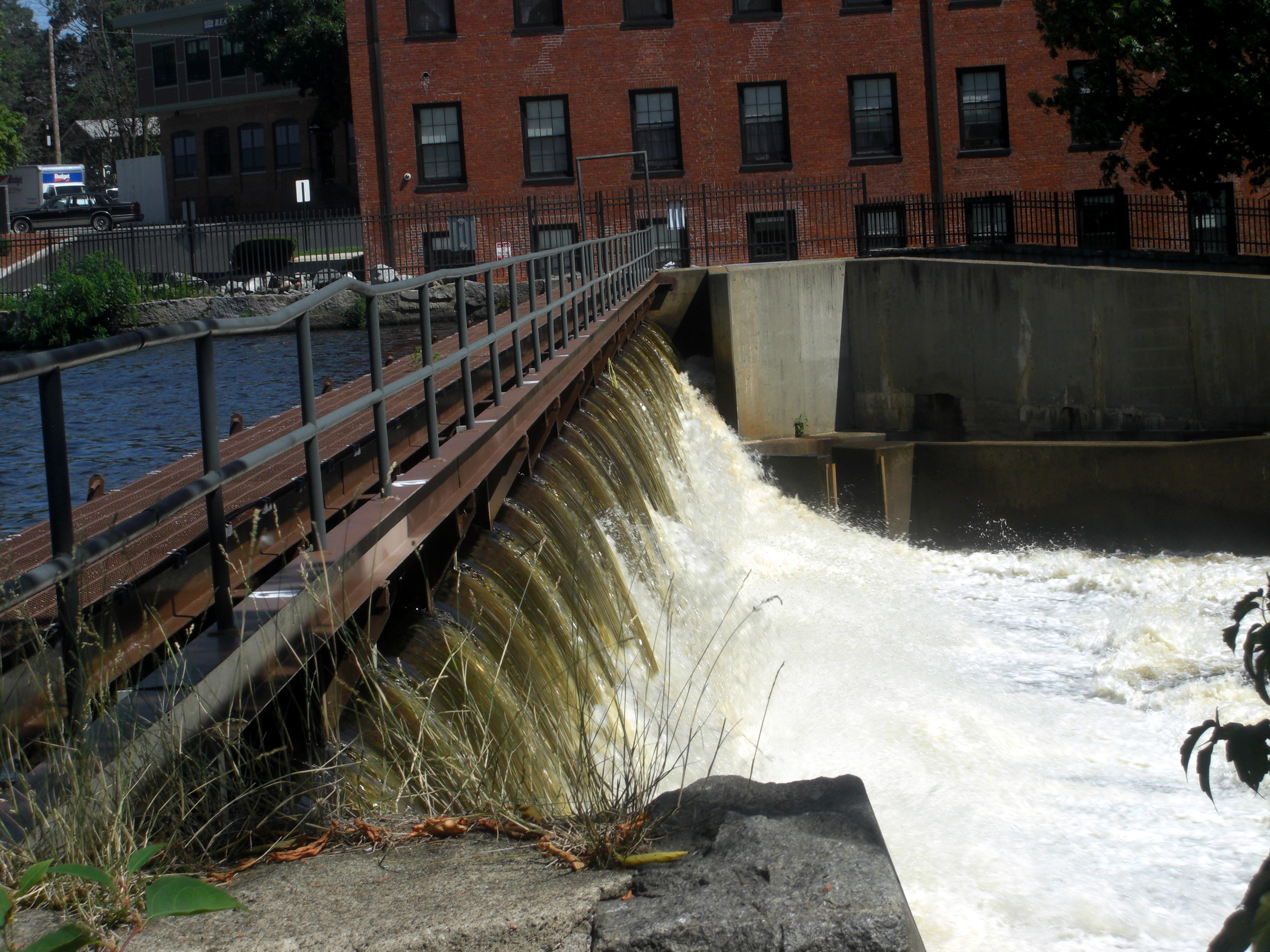 The Moody Street Dam at Boston Manufacturing Waltham